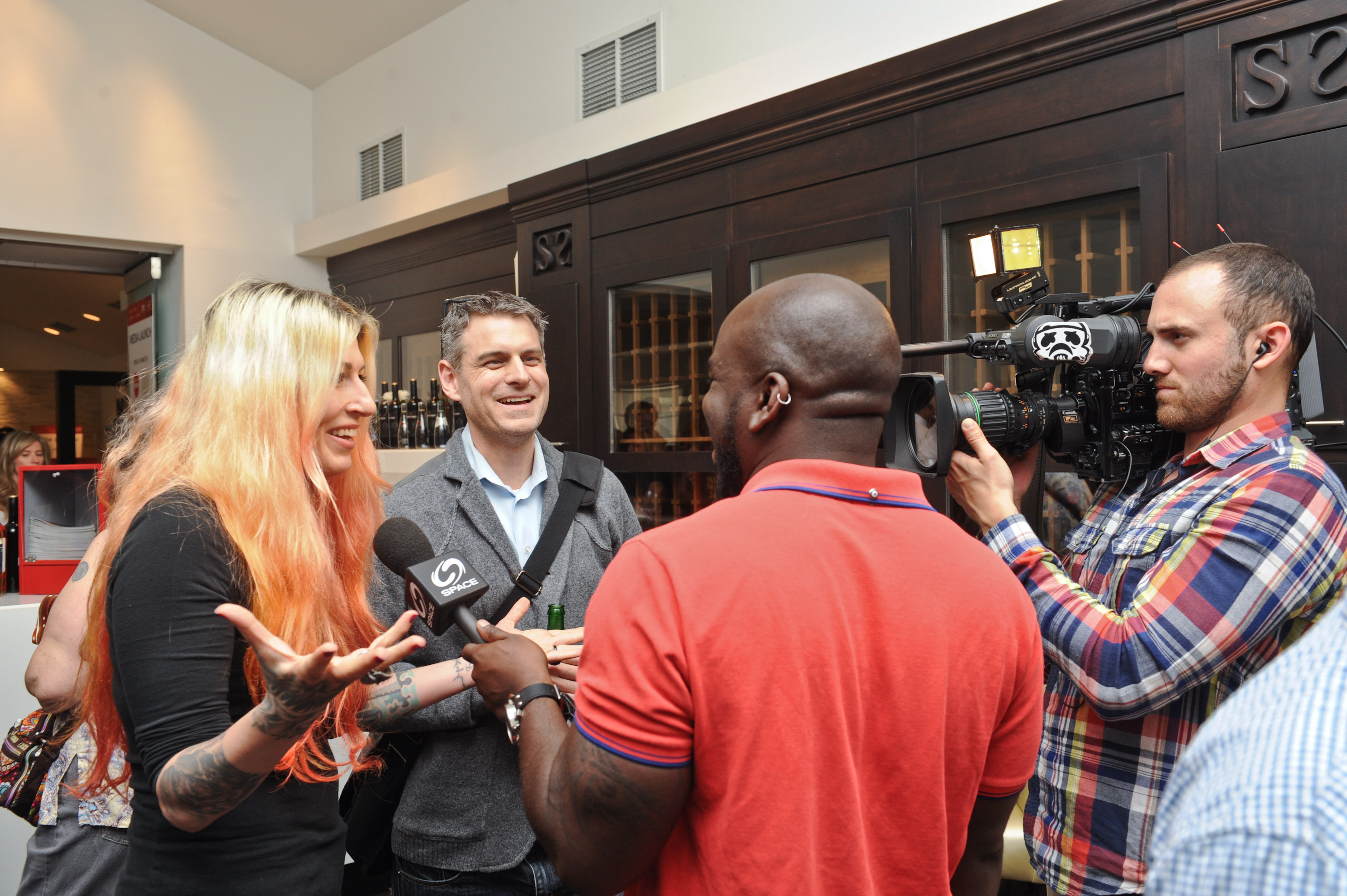 Jovanka Vuckovic(1st left) and Jason Lapeyre(2nd left) of The Captured Bird talking to SPACE. CFC Worldwide Short Film Festival -- June 5 -10, 2012 Taking place in downtown Toronto, the CFC Worldwide Short Film Festival (WSFF) showcases specially-themed 90-minute programs, with each program offering from 5-20 films -- all for as low as $10 a ticket! WSFF is North America's largest venue for short film exhibition, industry programming, and marketplace. Visit for full details Stay Connected! #wsff12 Photo by Ernesto Di Stefano